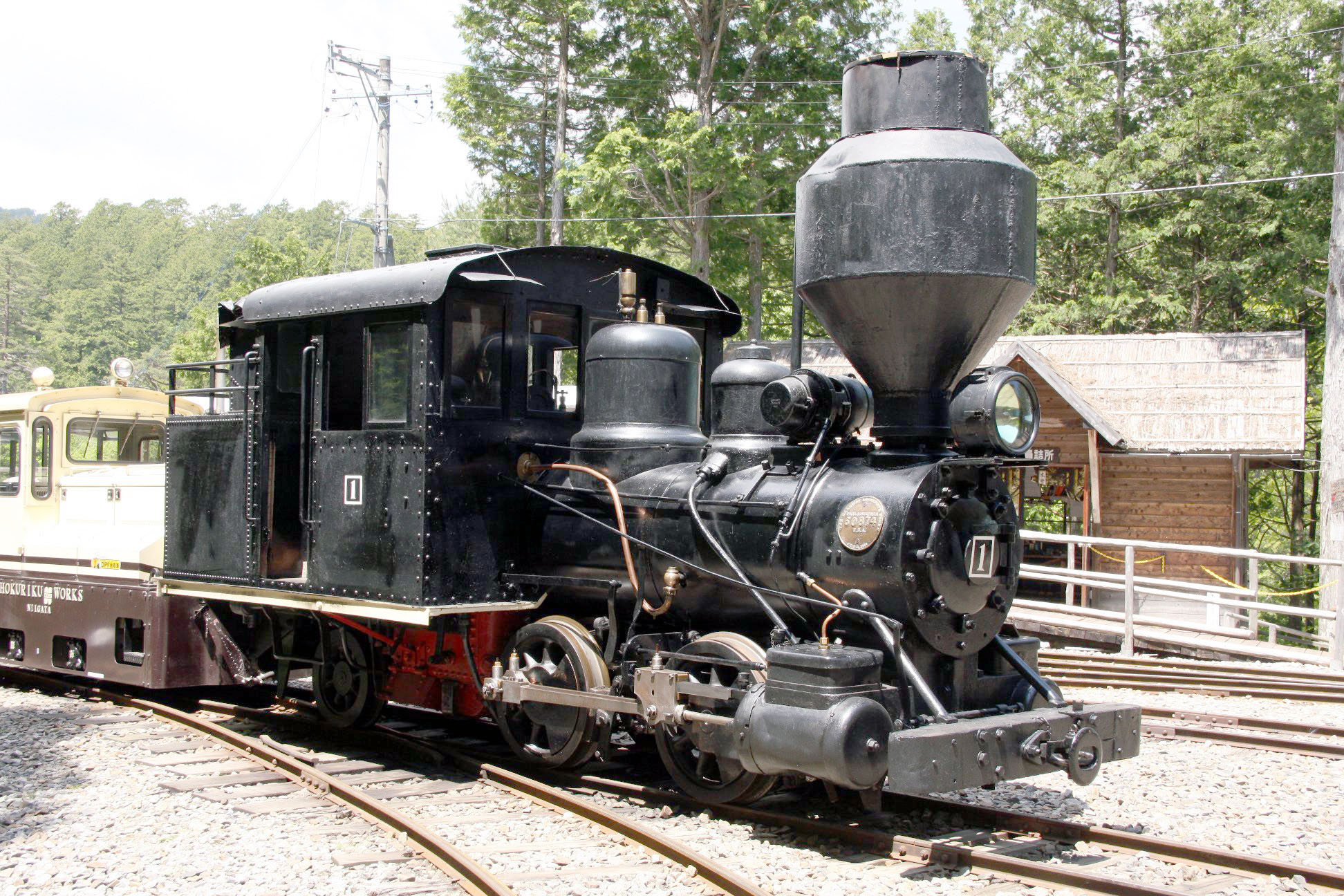 kisoshinrin_Baldwinloco